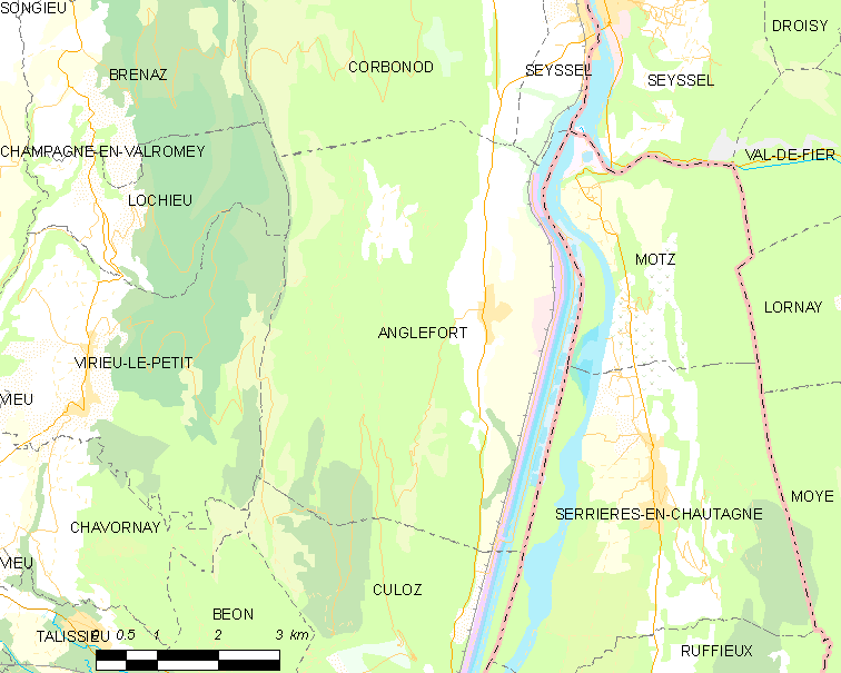 Map of French commune: Anglefort Map commune FR insee code 01010.png